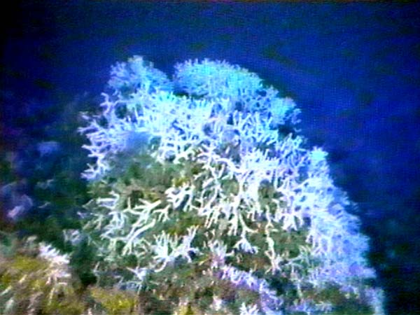 Deepwater Stony Coral Oculina varicosa